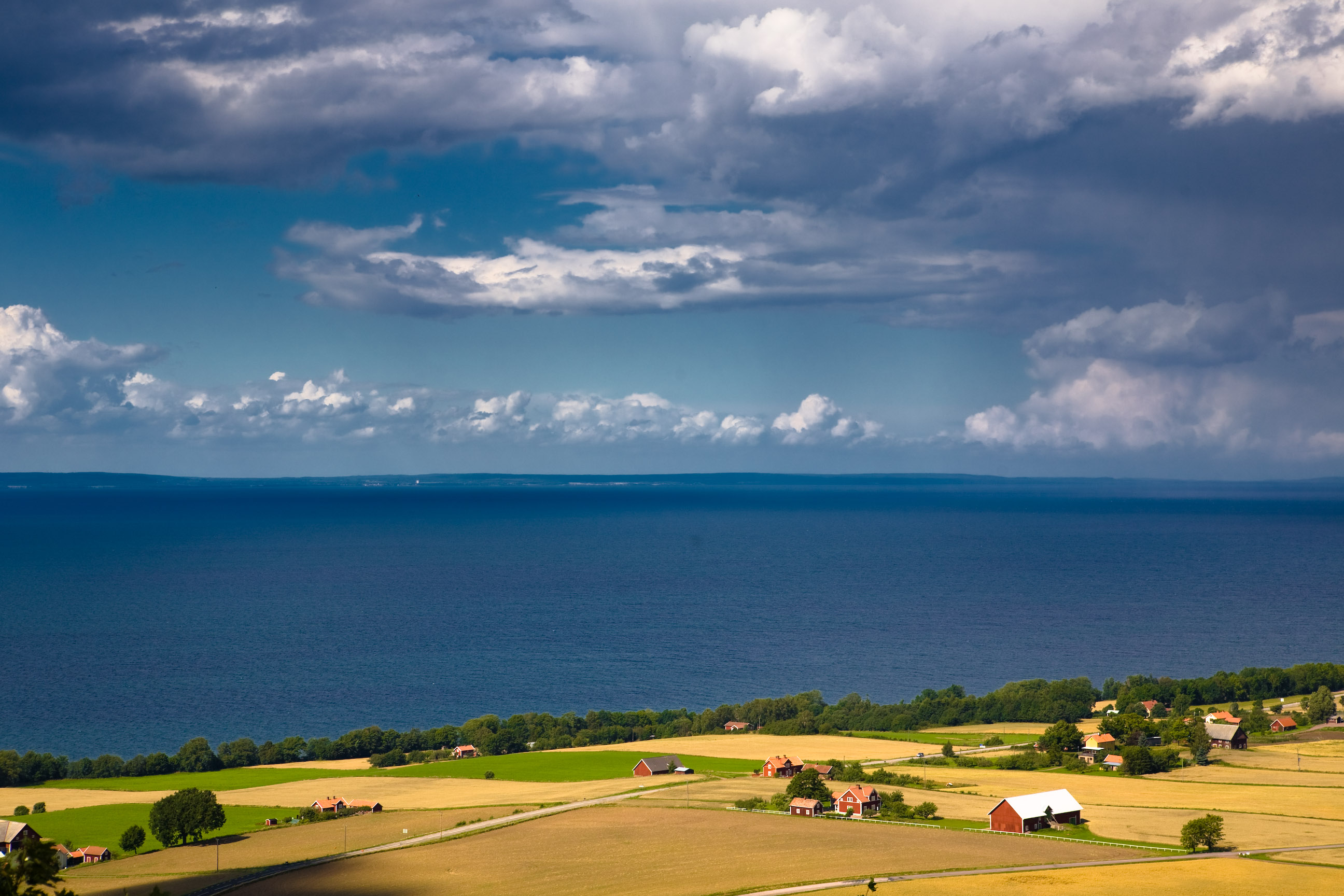 View on Vättern lake from Brahehus hights and ancient castle